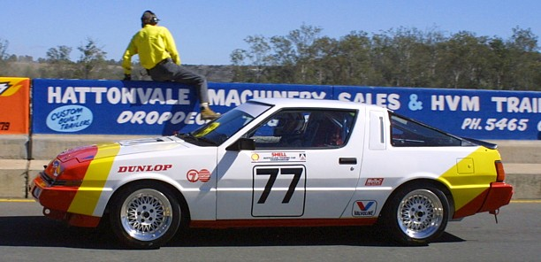 Mitsubishi Starion touring car raced by Scotty Taylor and Kevin Kennedy